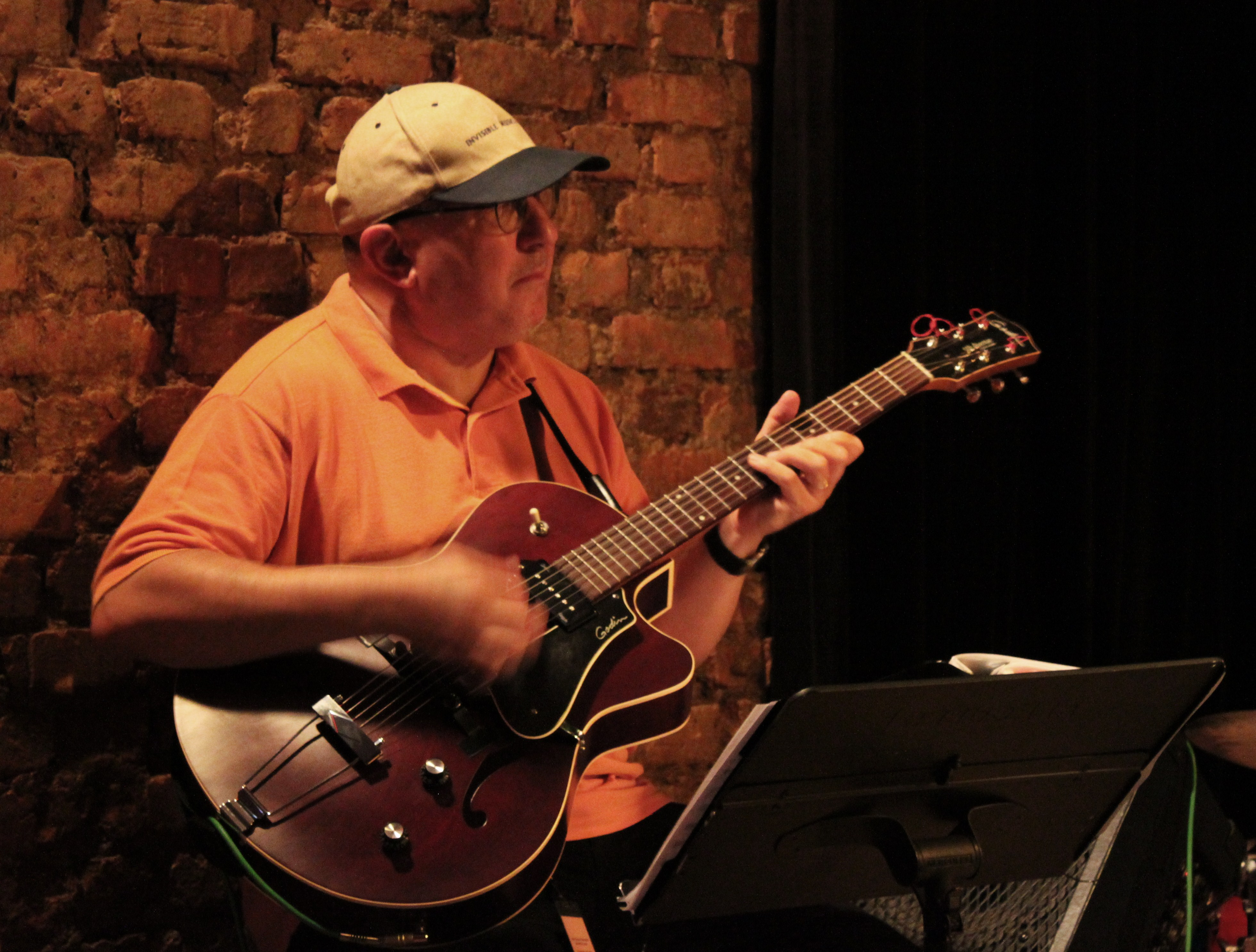 Önder Focan, Turkish jazz guitarist at Nardis Jazz Club, İstanbul, 02 July 2011